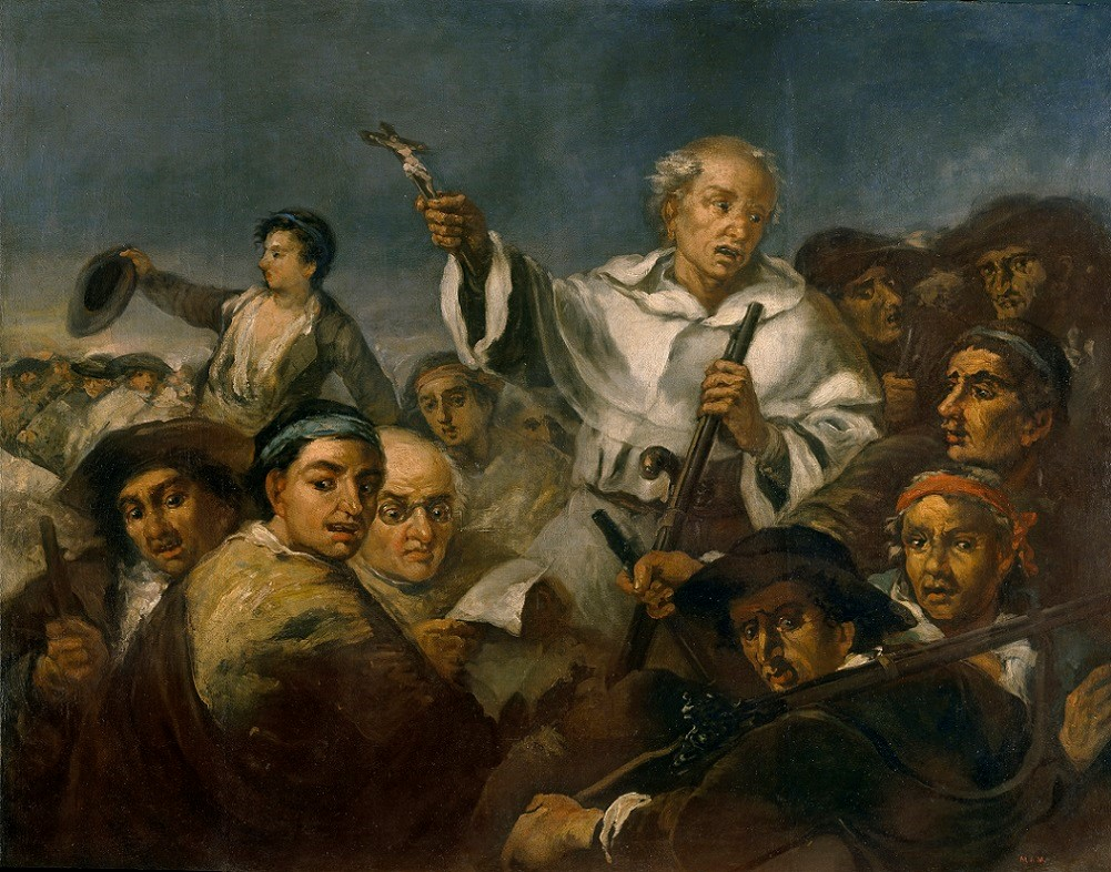 óleo sobre lienzo